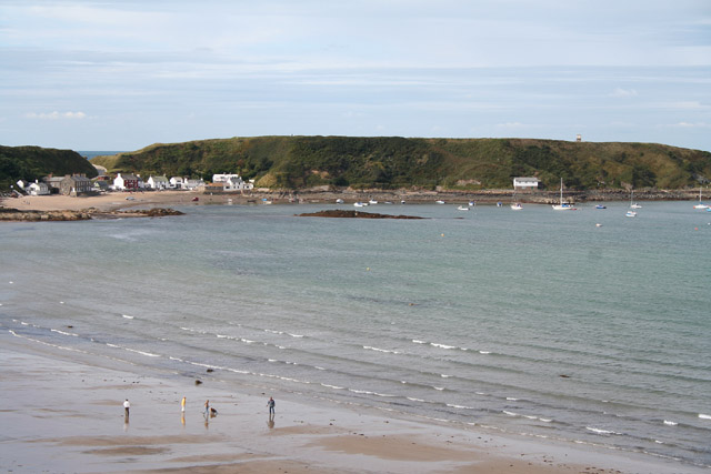 Nefyn: Porthdinllaen. Seen from the National Trust car park at Morfa Nefyn – at SH281407. In 1807 Porthdinllaen was preferred to Holyhead as the new departure point for Ireland but the bill for its development was rejected in 1810. In the nineteenth century pigs reared on the Llŷn peninsula were shipped here to Liverpool and salted herrings went to Ireland. Sailing vessels were built at Porthdinllaen